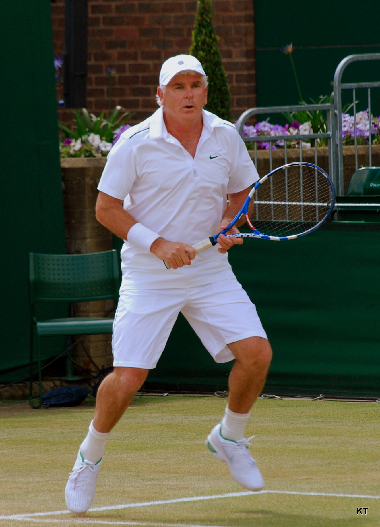 Senior Gentlemen's invitational doubles - Jeremy Bates & Anders Jarryd v Peter McNamara & Paul McNamee. Day 11 of Wimbledon 2011.